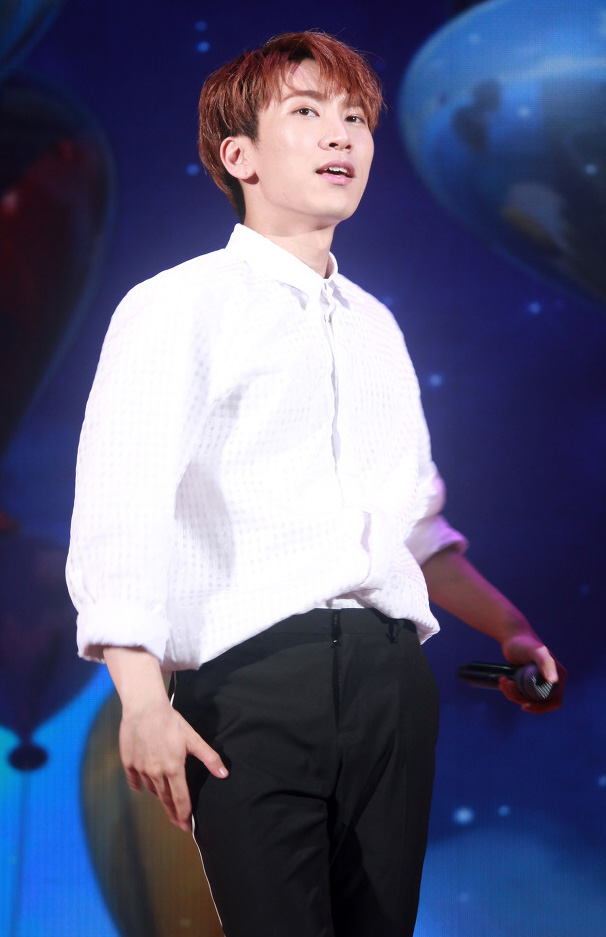 150724 롯데월드 나이트파티